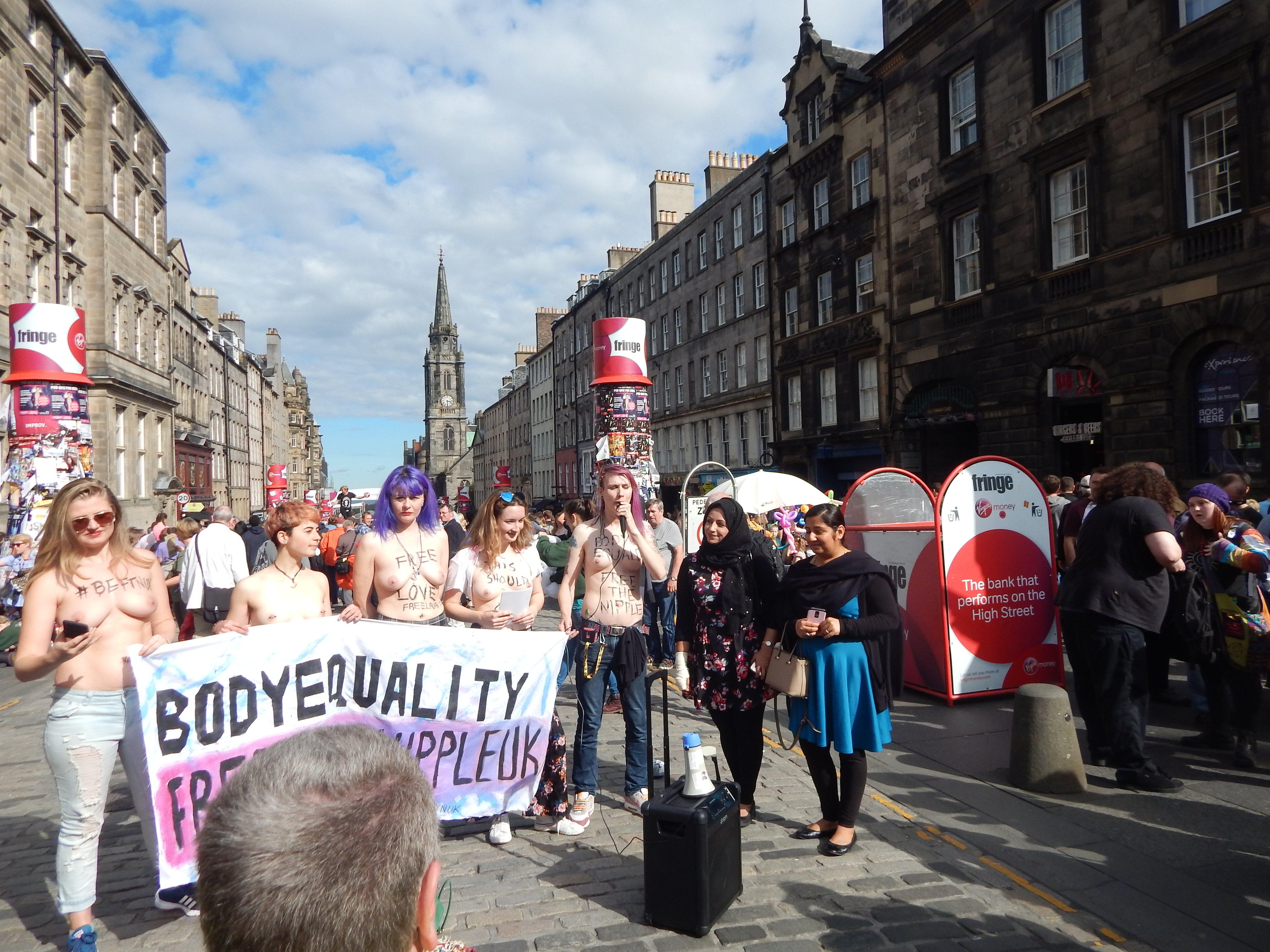 Free the Nipple Protest at Fringe 2017 Festival in Edinburgh